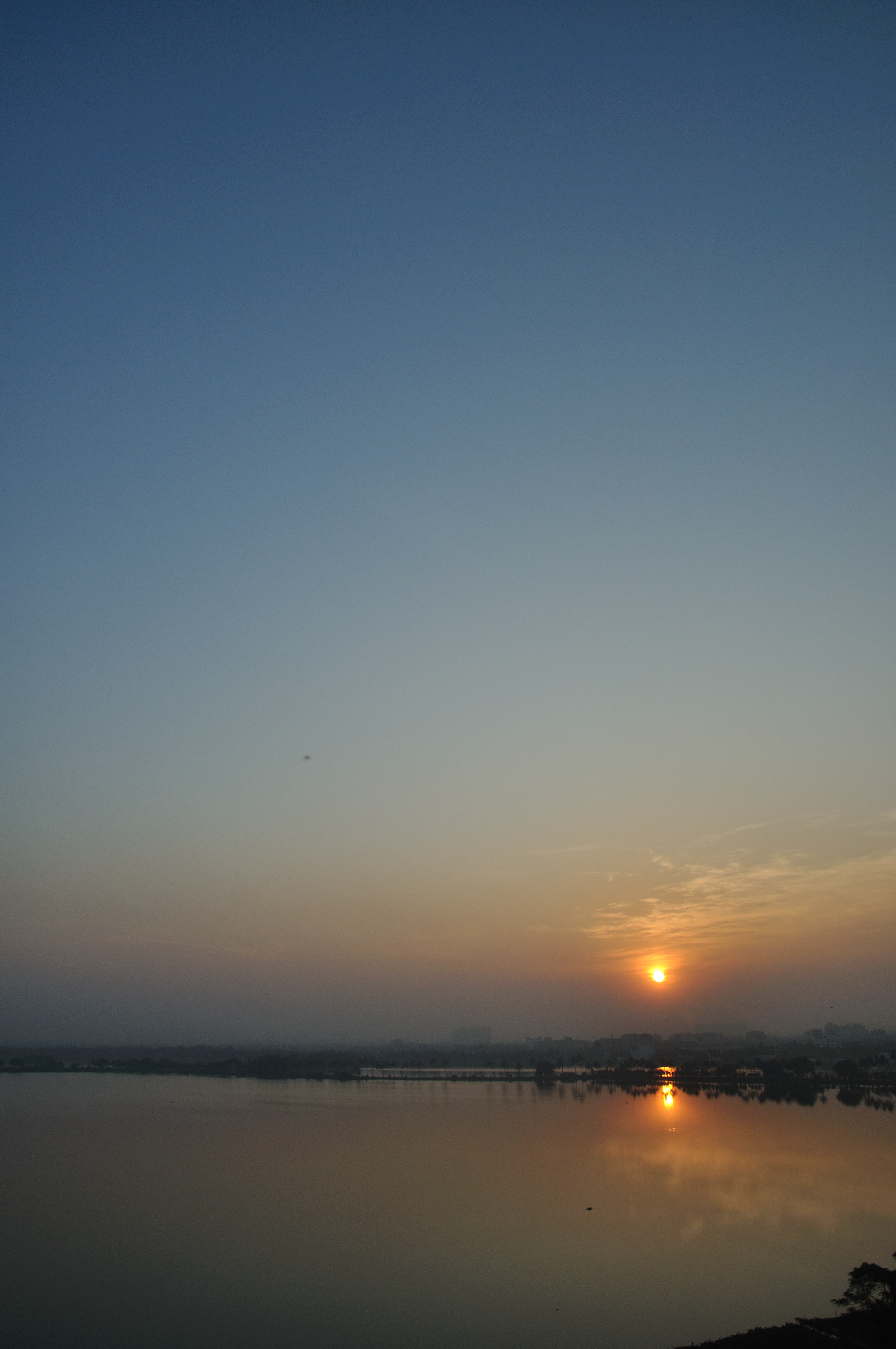 The sun setting photograph has been taken on the winter solstice day (22 December, 2011) from Kolkata. The winter solstice occured at Kolkata at 10:25 AM (not IST) equivalant to 5:30 UTC.